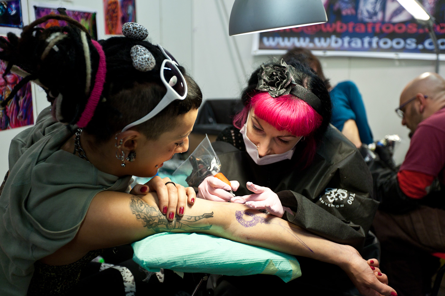 Florence Tattoo Convention